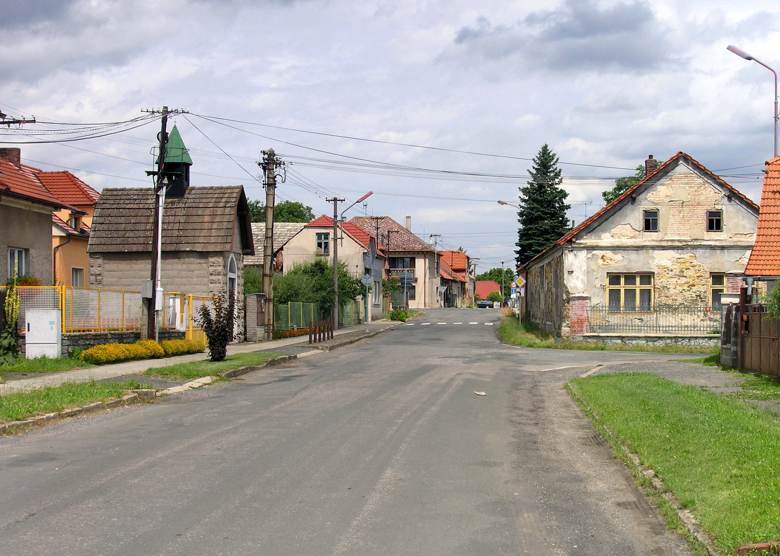 Central part of Bělušice village, Czech Republic